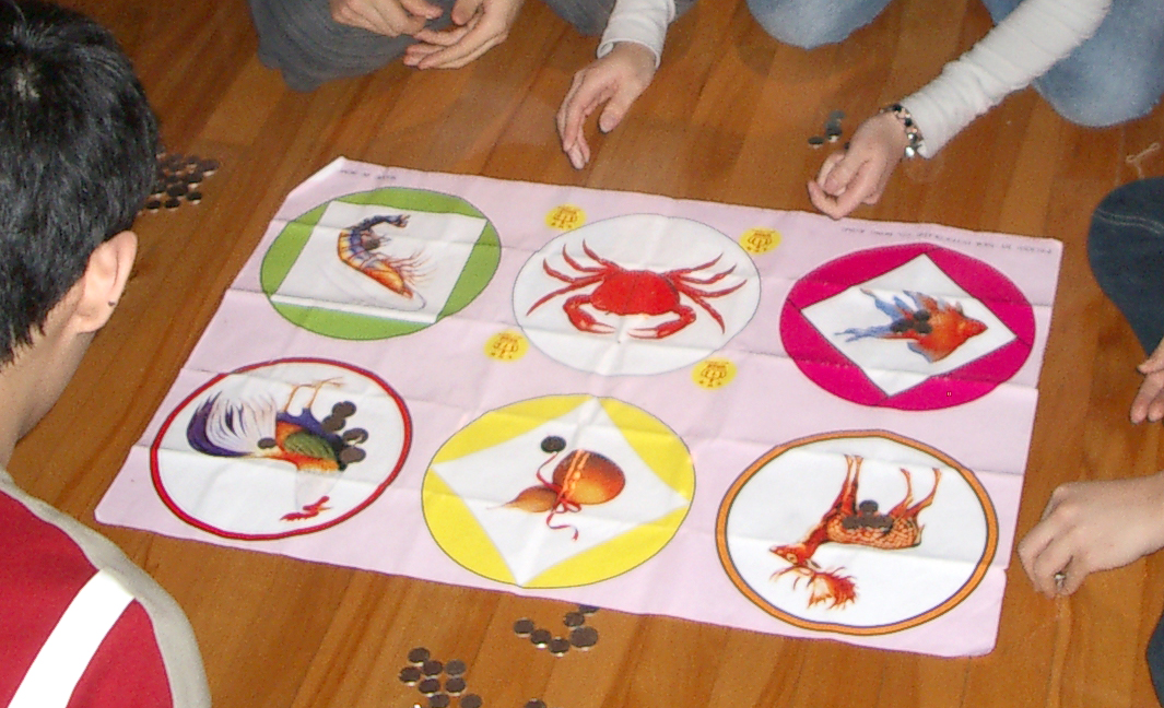 Photo of the game bau cua ca cop. Taken by User:Krestavilis in 2005